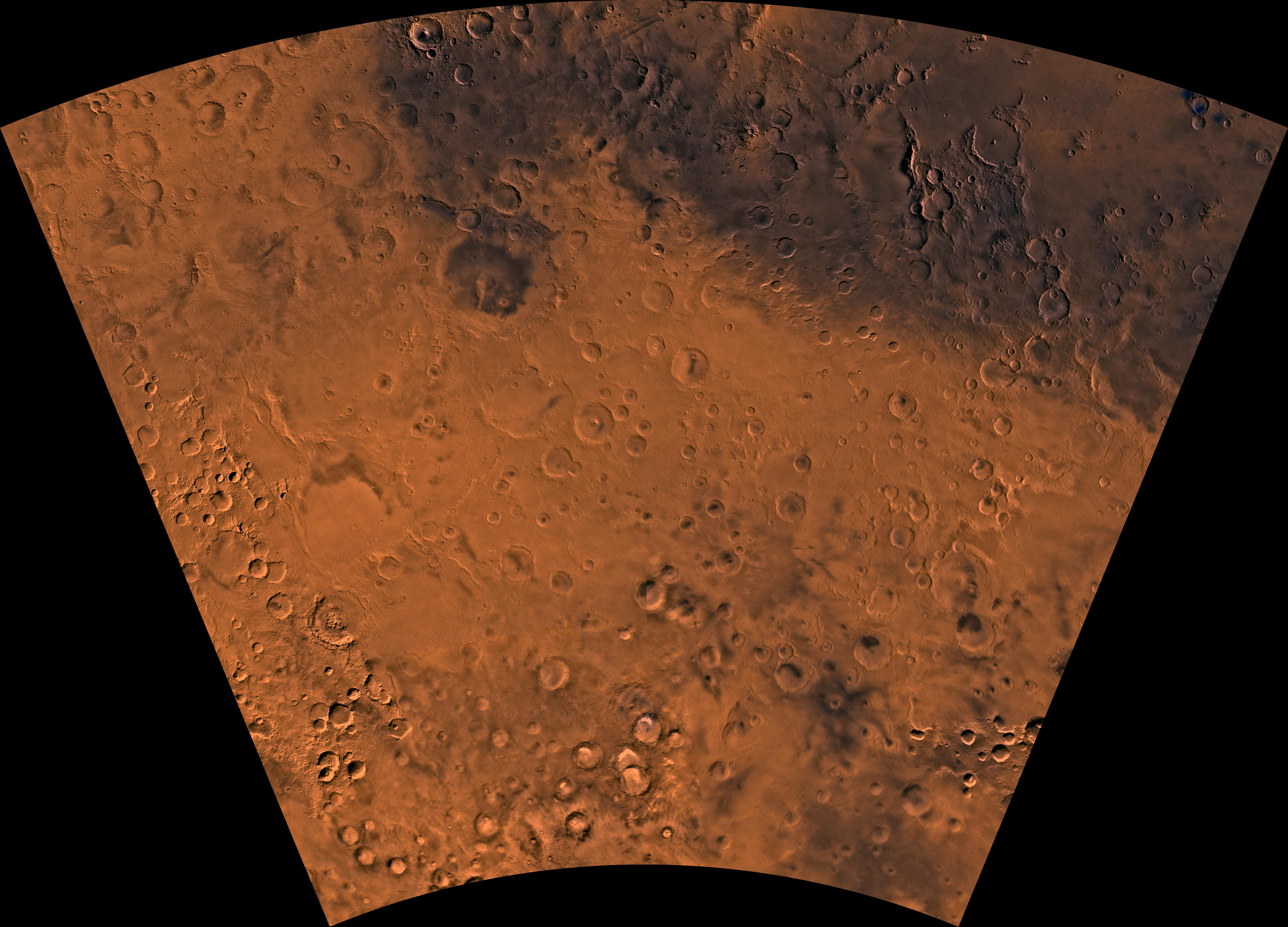 PIA00184: MC-24 Phaethontis Region Mars digital-image mosaic merged with color of the MC-24 quadrangle, Phaethontis region of Mars. The Phaethontis quadrangle is dominated by heavily cratered highlands and low-lying areas forming relatively smooth plains. Latitude range -65 to -30 degrees, longitude range 120 to 180.